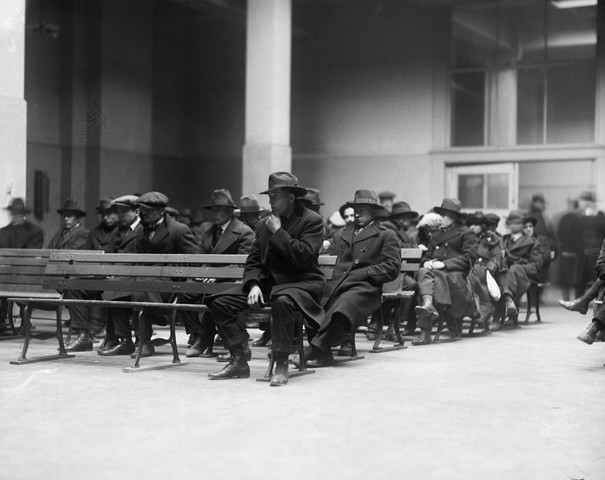 Original caption: 1/3/1920-New York, NY: Photo shows anarchists, reds, and radicals who were rounded up in NYC in last nights raids, arriving at Ellis Island. These undesirables will remain at Ellis Island until investigation and deportation proceedings have been completed. Many arrested in Newark and other nearby cities arrived at the Island during the afternoon.